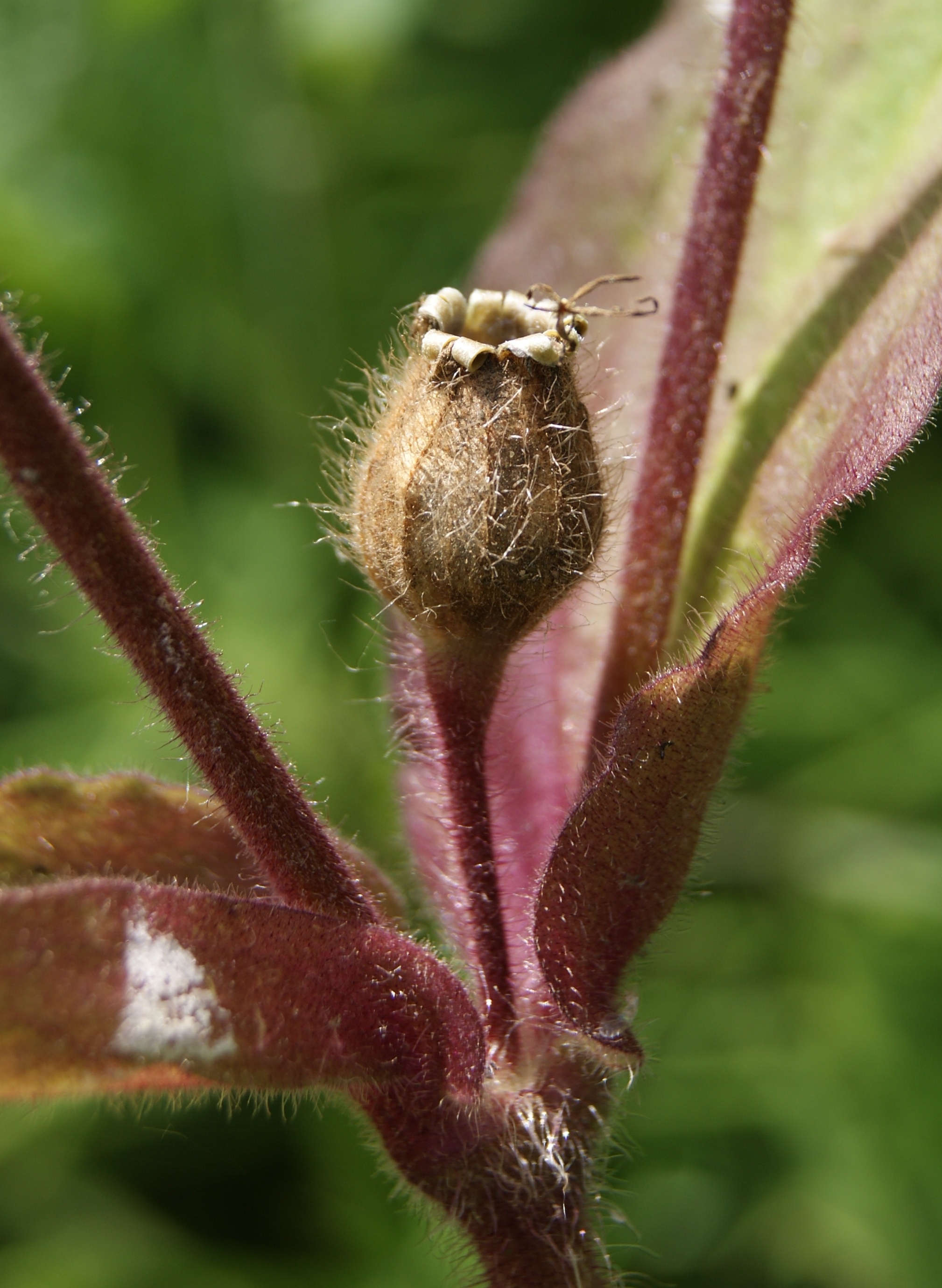 Capsule of Silene dioica; 57258 Freudenberg, Germany.